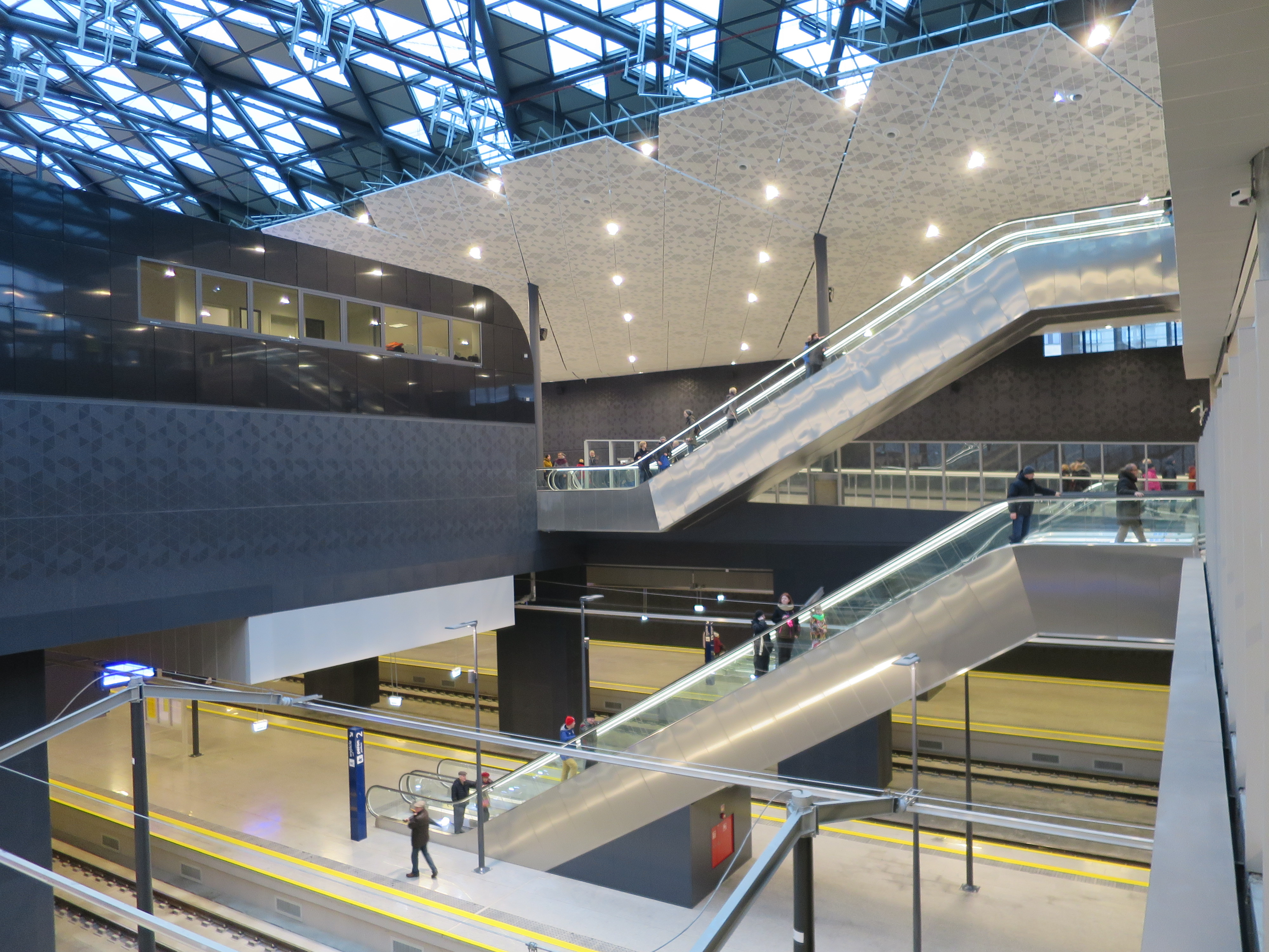 The making of this document was supported by Wikimedia Polska Association, within Wikigrant no. WG 2016-56. Łódź Fabryczna - perony